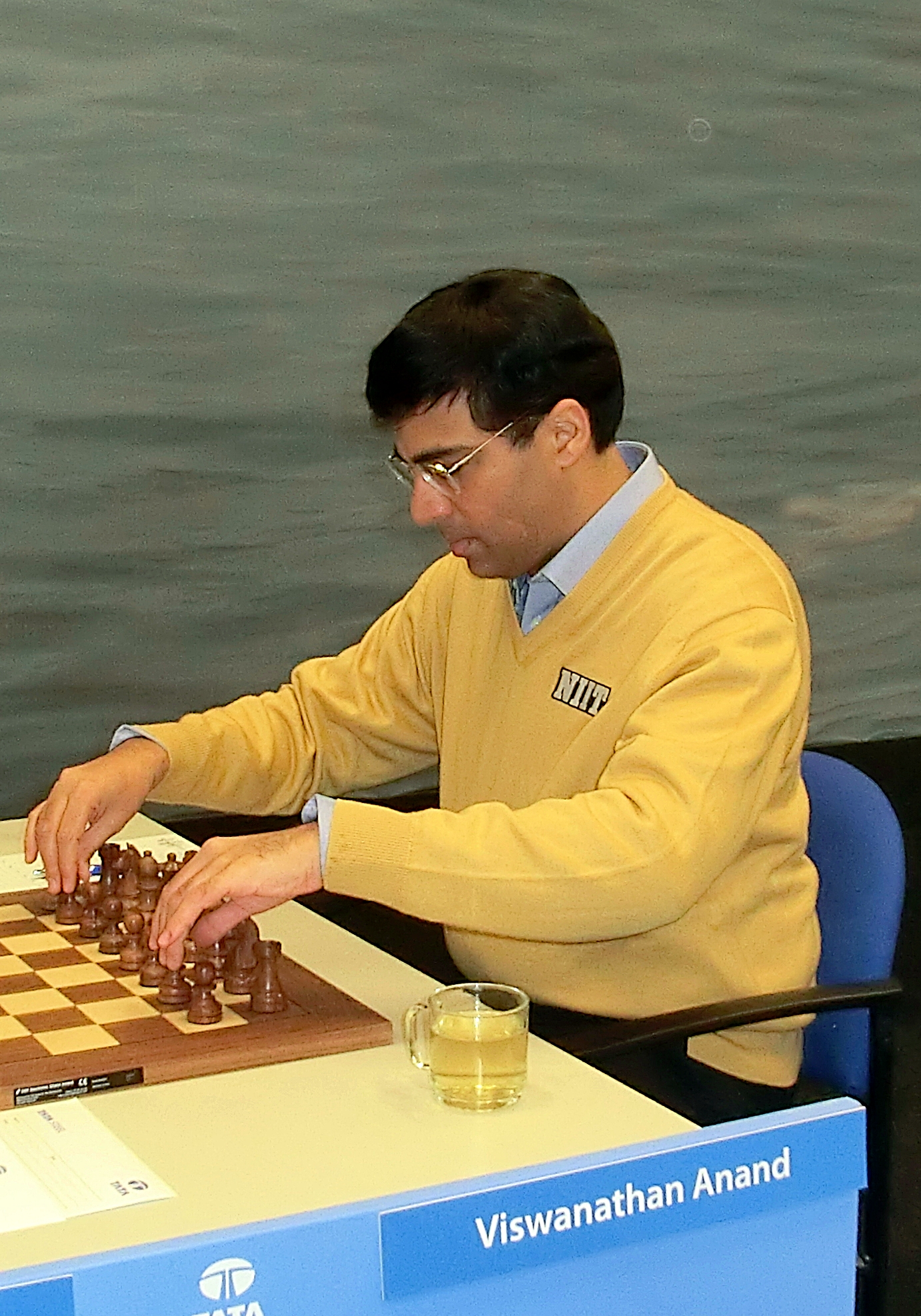 Viswanathan Anand, chess world champion